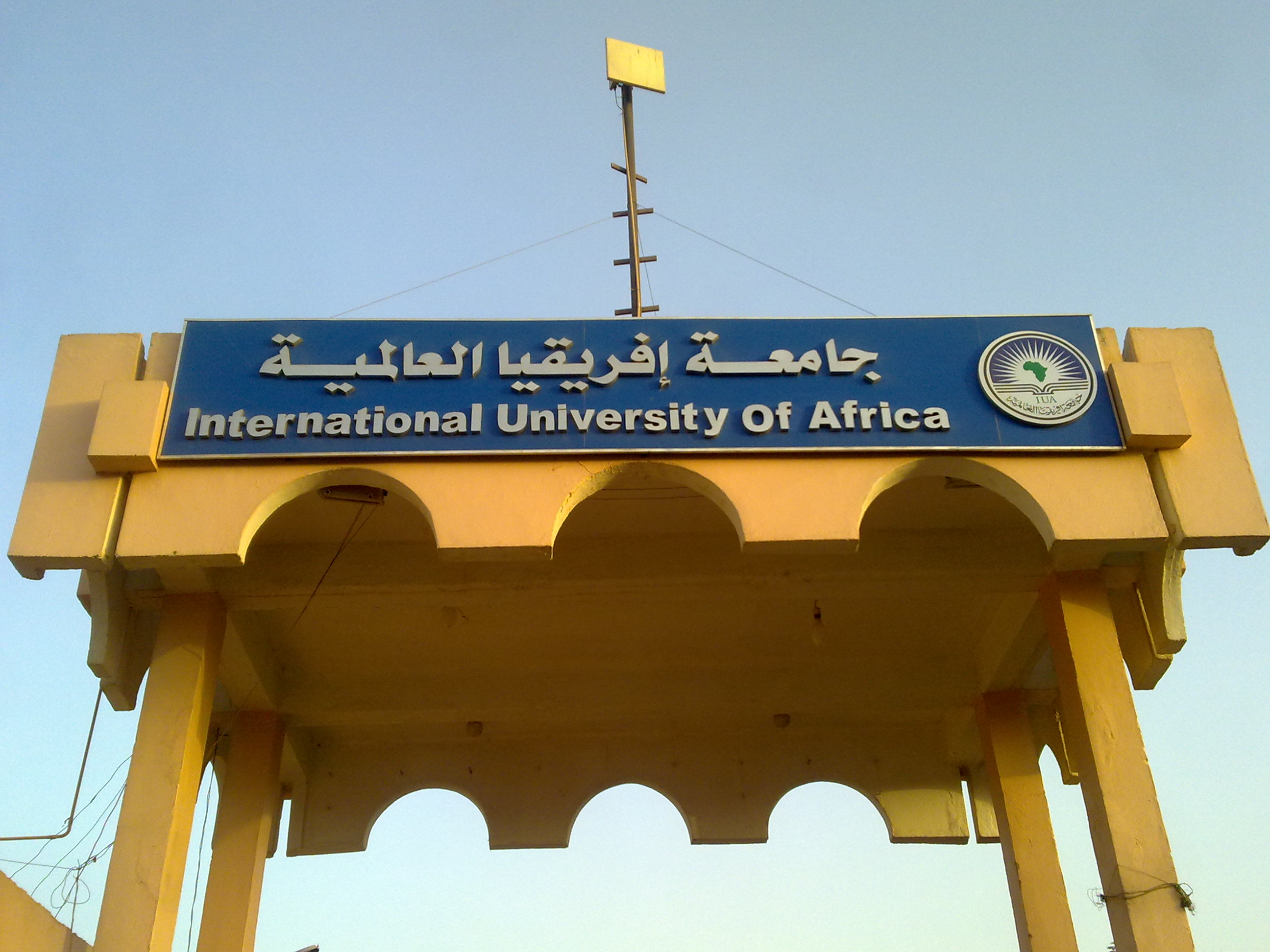 Main Gate of International University of Africa